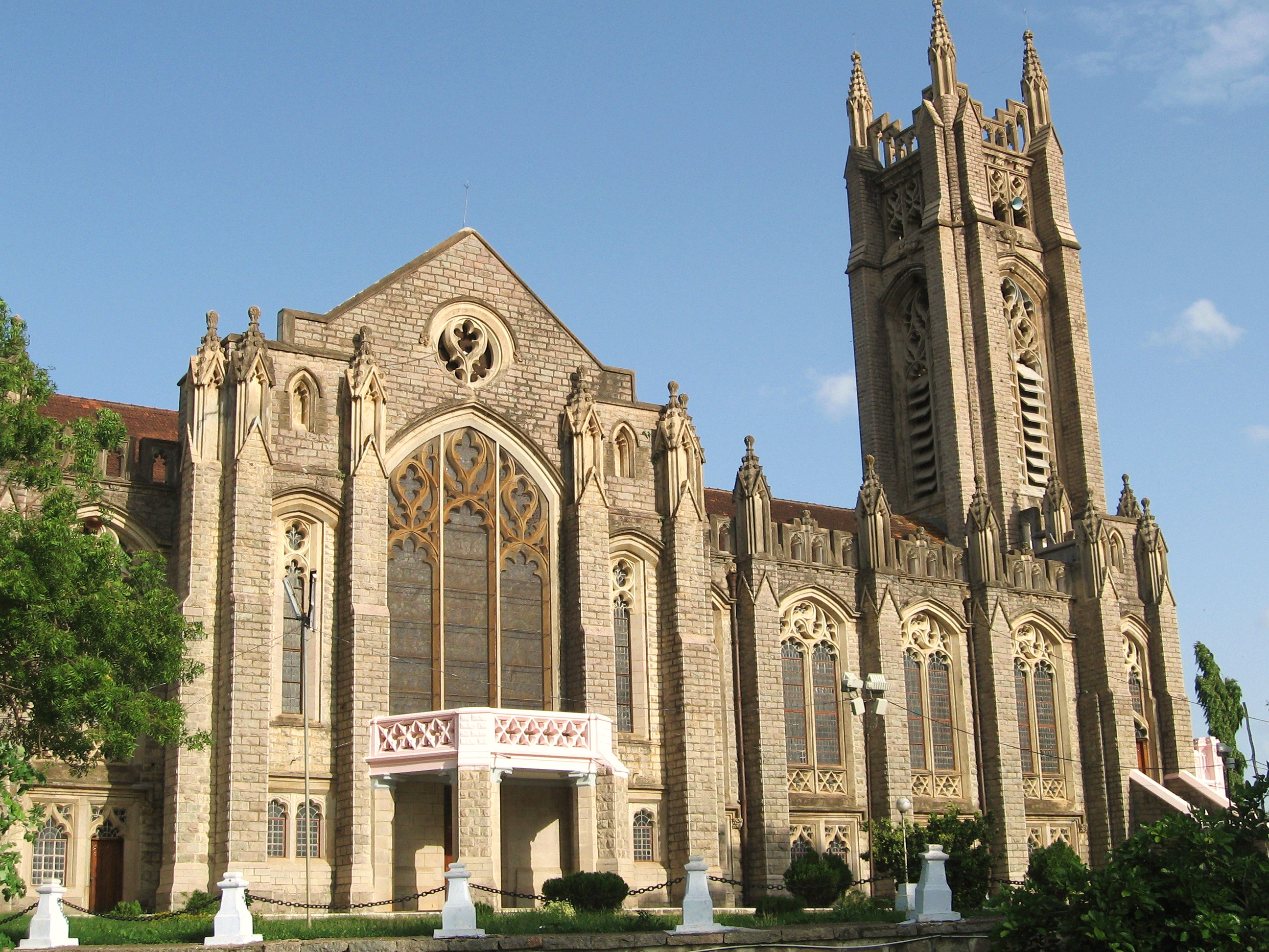 own work